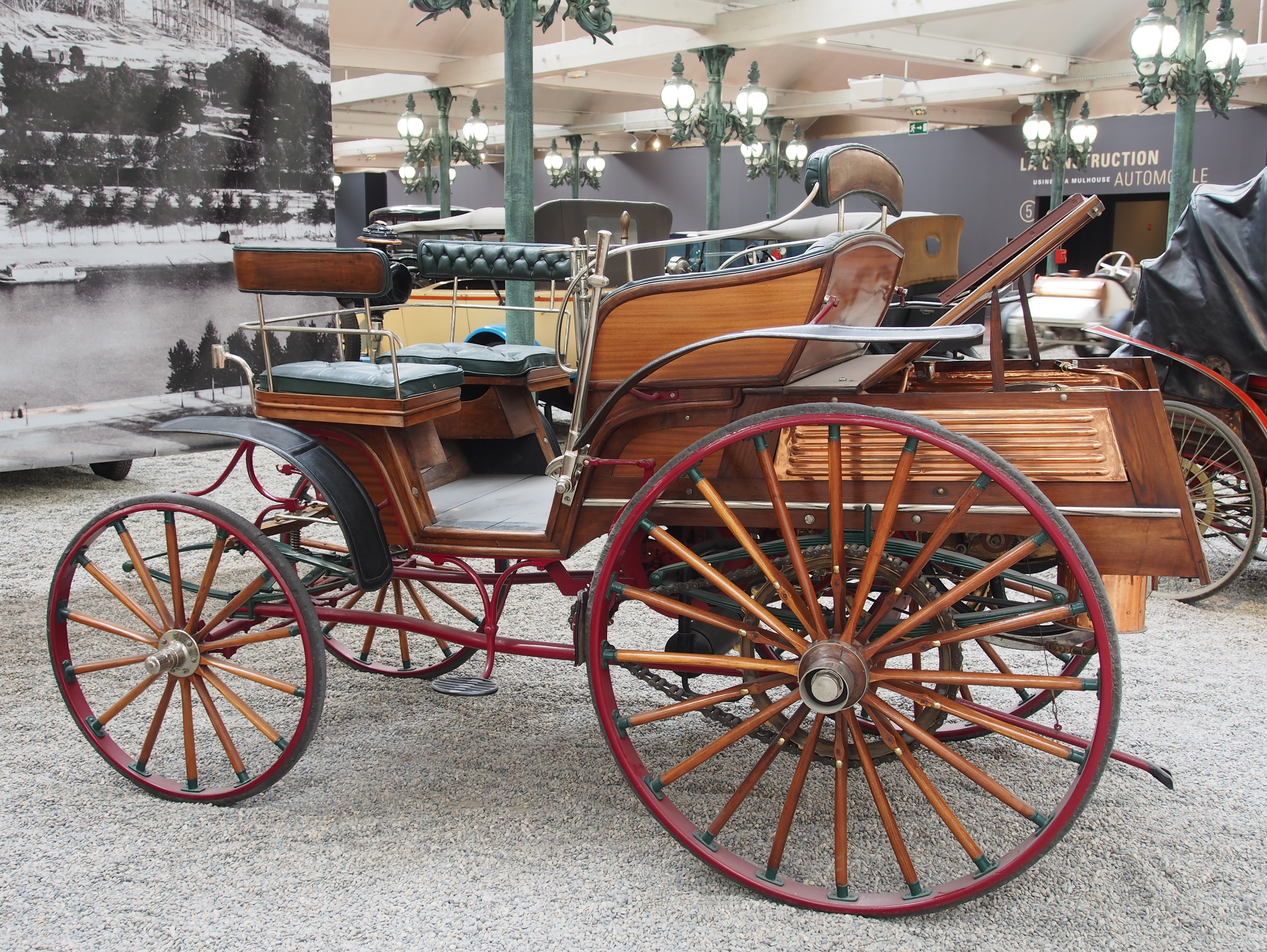 Photographed at the Cité de l'Automobile, France.